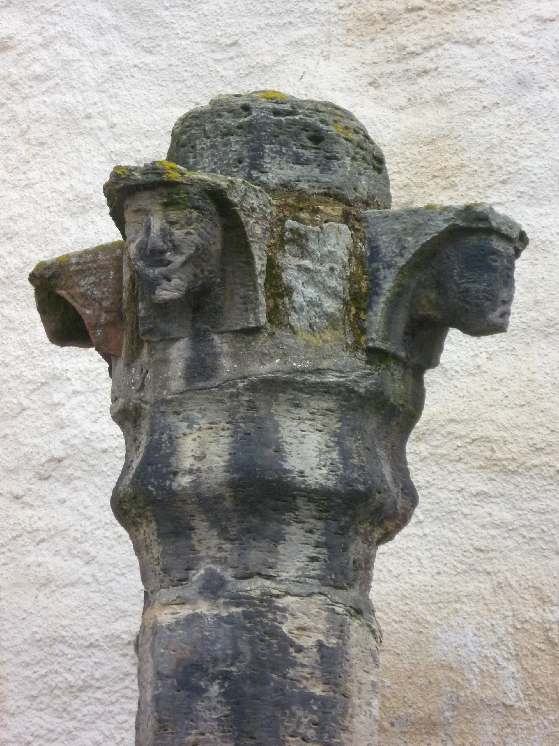 The 16thC cross-shaft is surmounted by three skewputs bearing grotesque human heads. They are believed to have been taken from the town's parish church which has been replaced by a newer building on the same site.